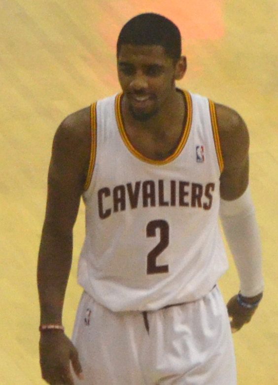 Kyrie Irving, Memphis Grizzlies at Cleveland Cavaliers March 8, 2013